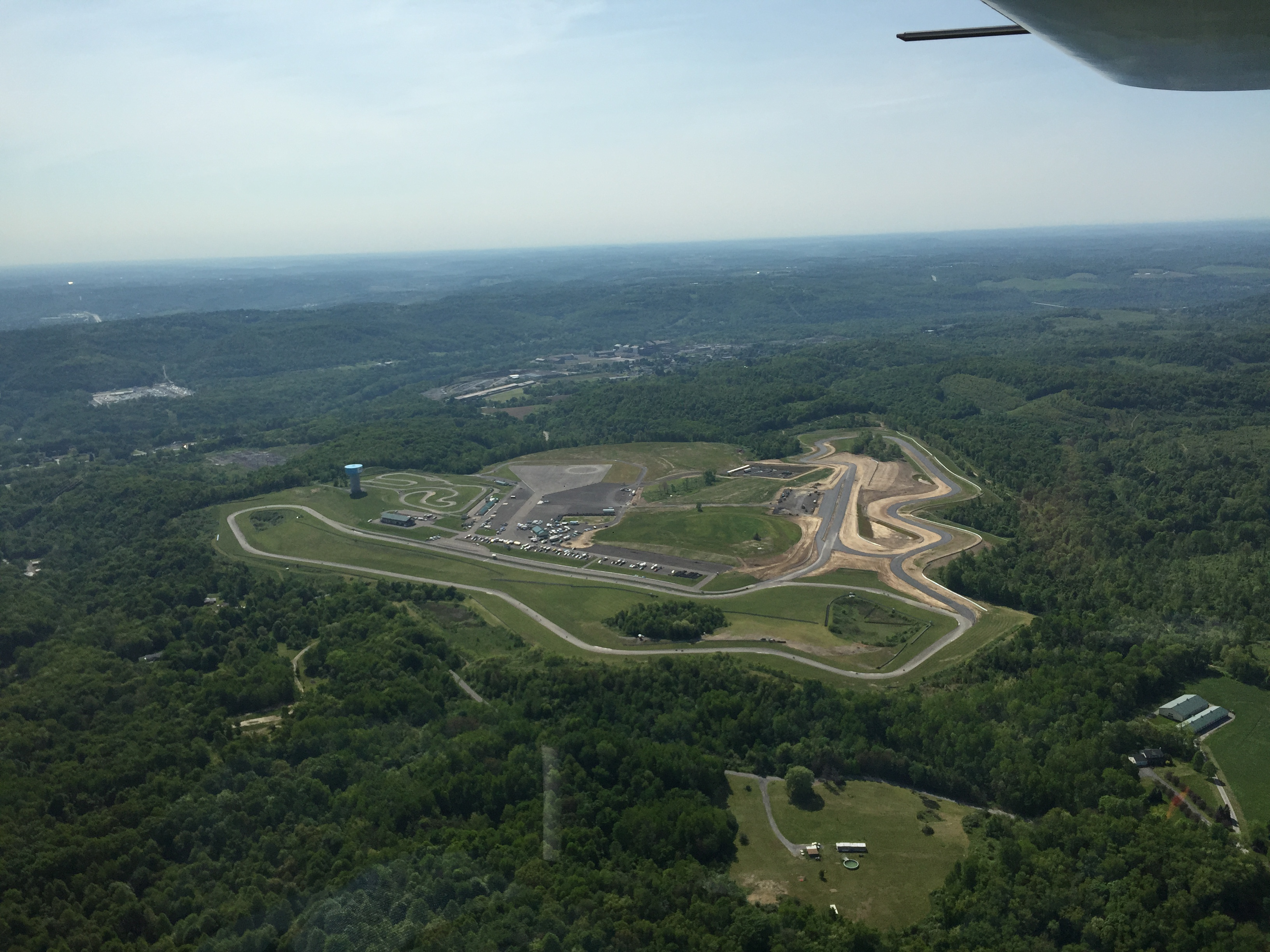 Ariel image of the entire facility, including the South Track addition